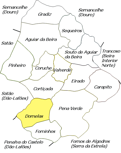 Map of Dornelas parish in Portugal. Author: Kullanıcı:Mskyrider.